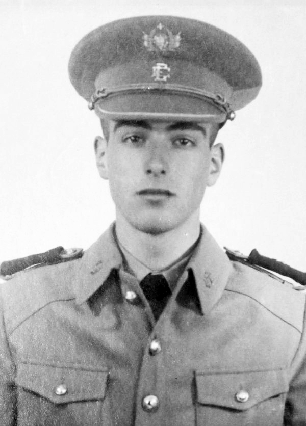 Portuguese paratrooper Alferes (2nd lieutenant) Mota da Costa